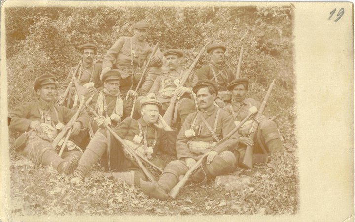 Cheta of Pano Zhigyanski in Skopie region